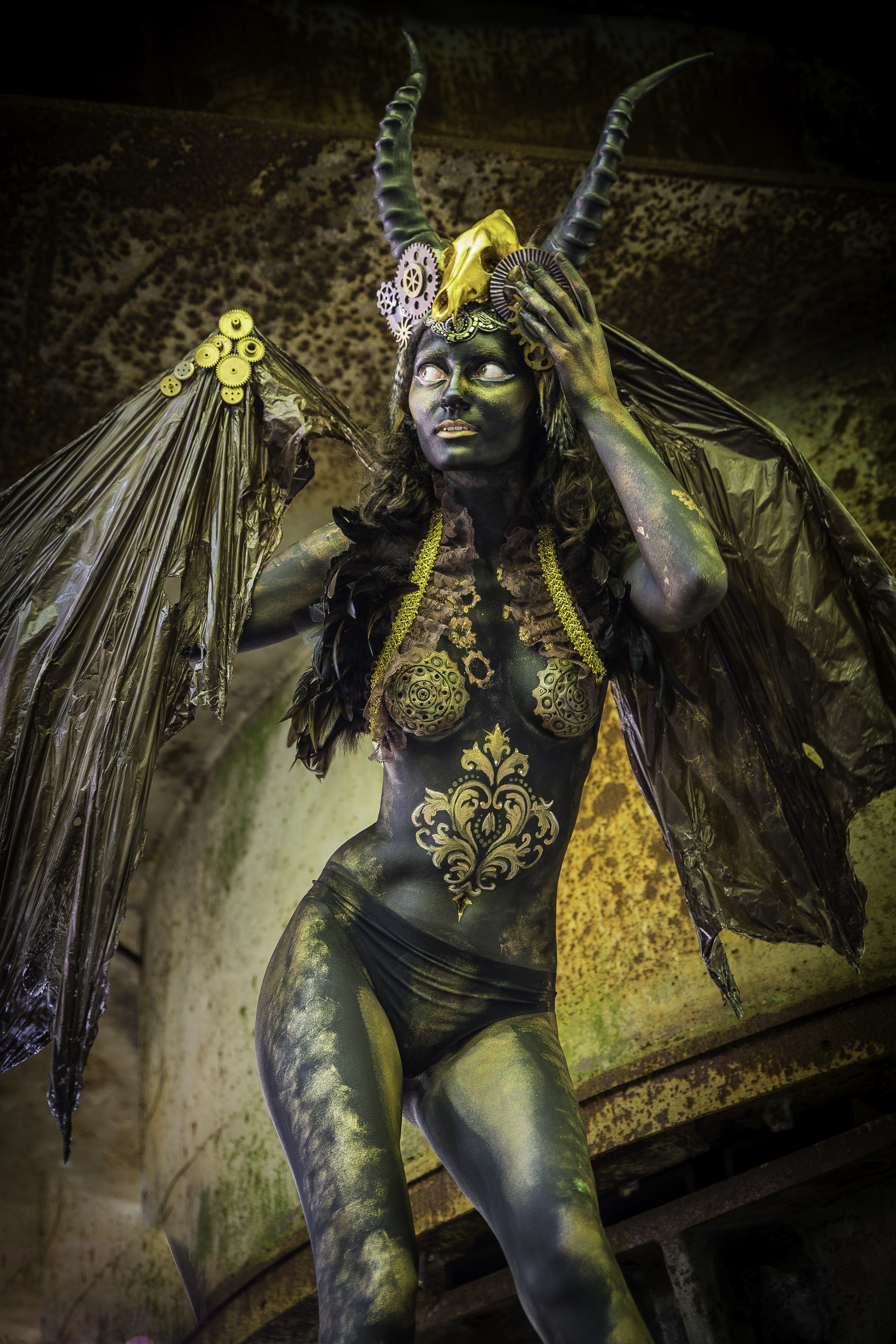 steampunk body paint creature by Lynn Schockmel, photo by Marco Mazzini